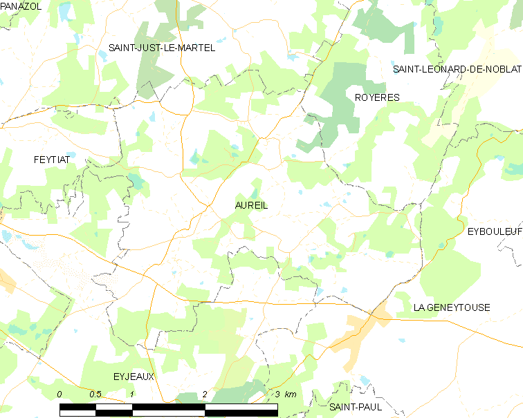 Map of French municipality Aureil